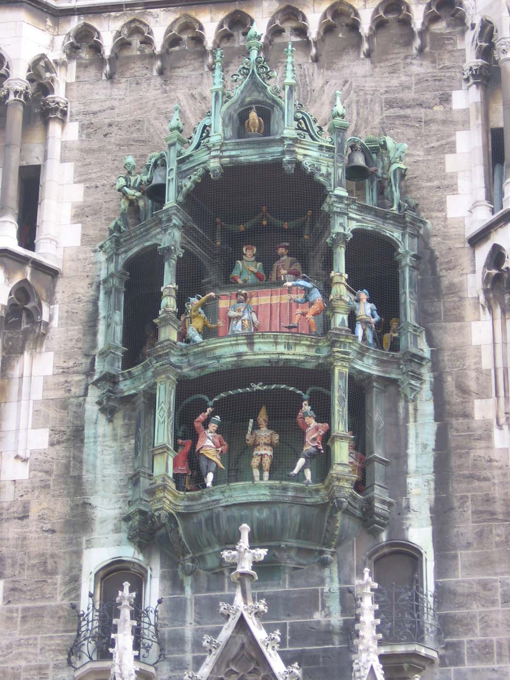 Carillon at Munich's New Town Hall-Tower.